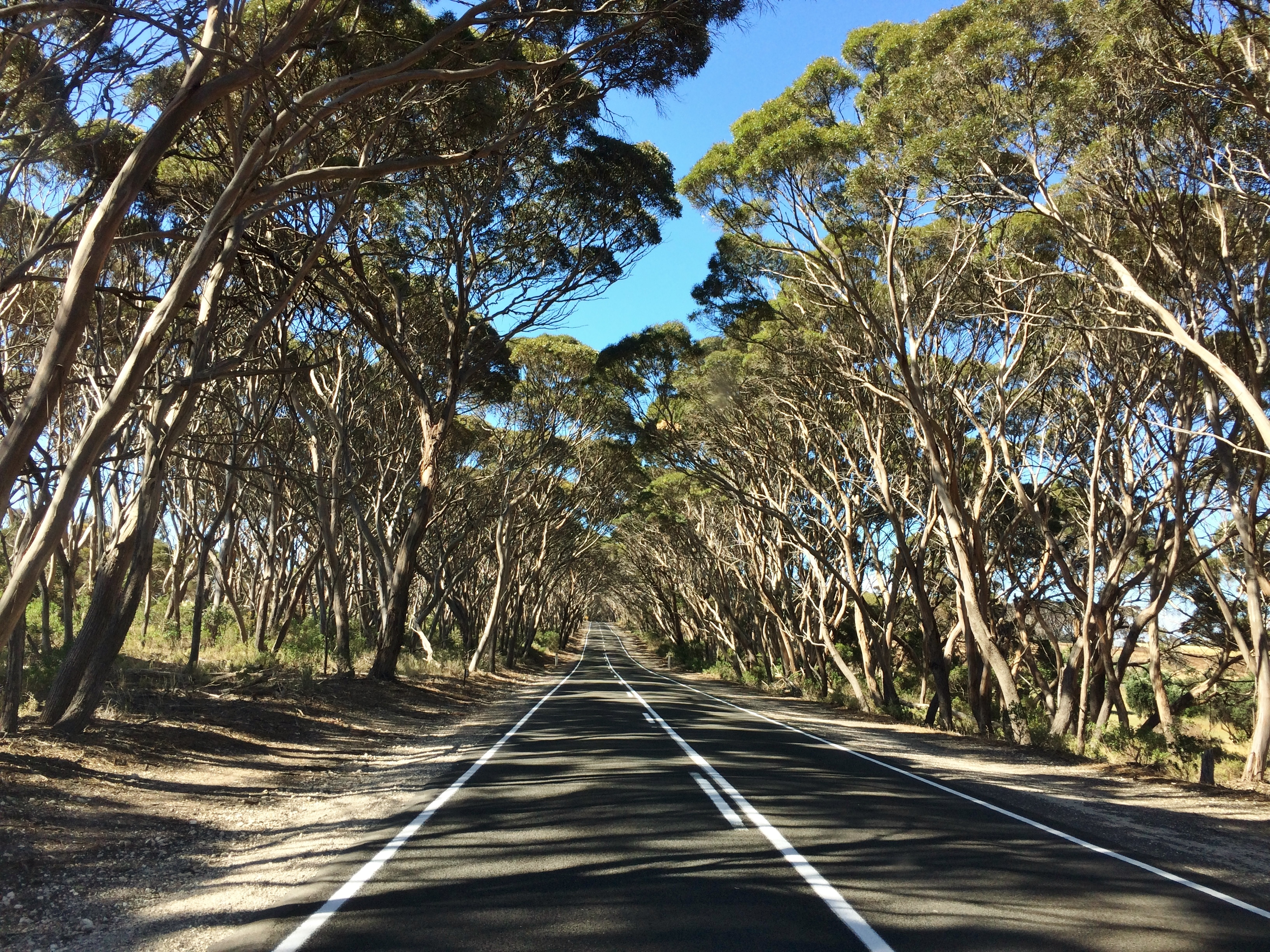 Eucalyptus cneorifolia (Kangaroo Island narrow-leaved mallee) along Cape Willoughby Road, Kangaroo Island SA